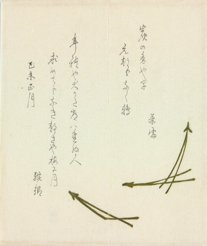 unsigned surimono with poem, decorated with needles, shijō style,c. 1820